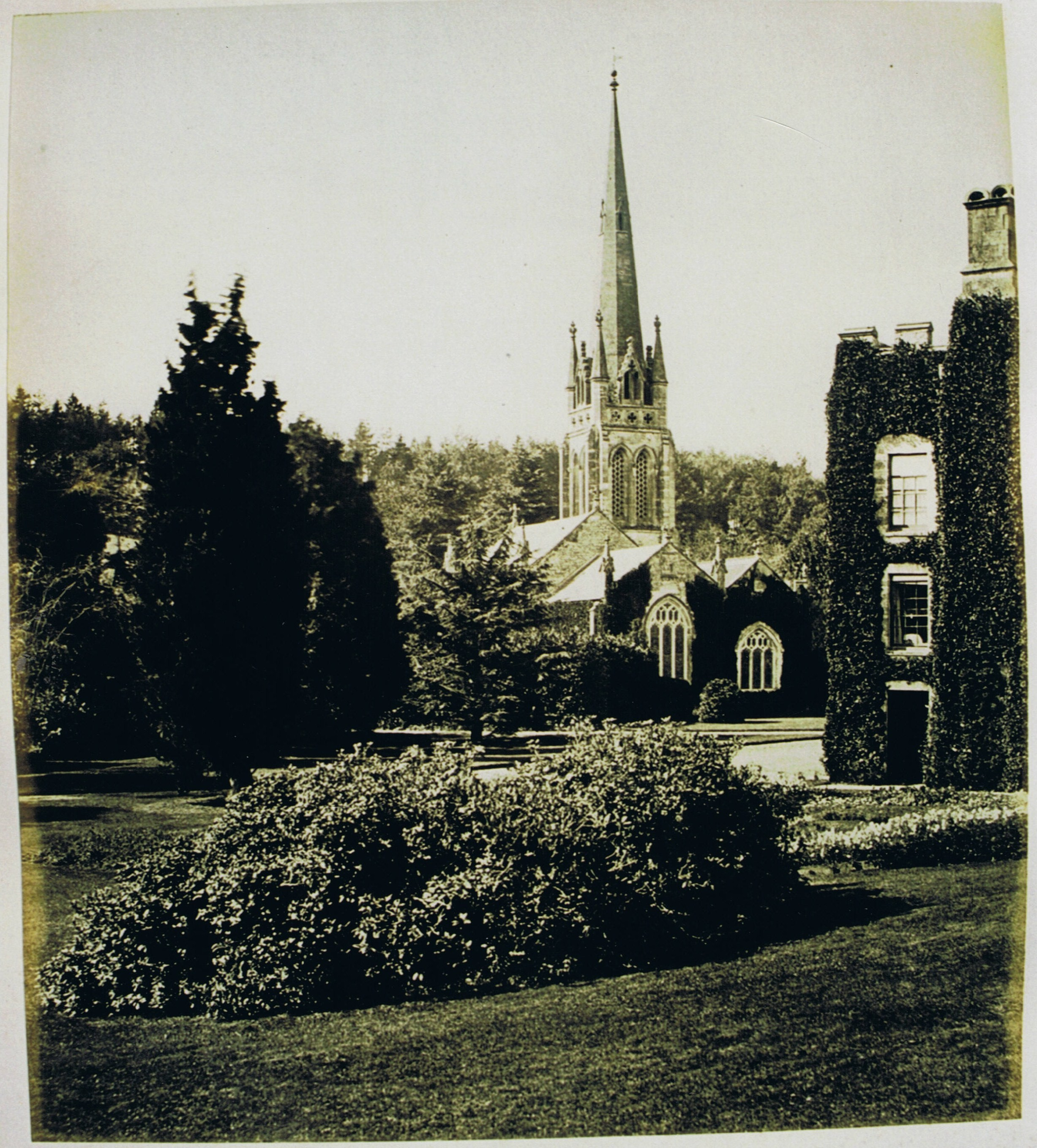 scan of a photo (R. de Salis, Oct. 2009) of a photo of c1865 of Teffont (Evias) church & manor. From the West. Original in an album put together by Emily & Willy Fane de Salis by 1867.Rodolph (talk) 00:03, 1 December 2009 (UTC)